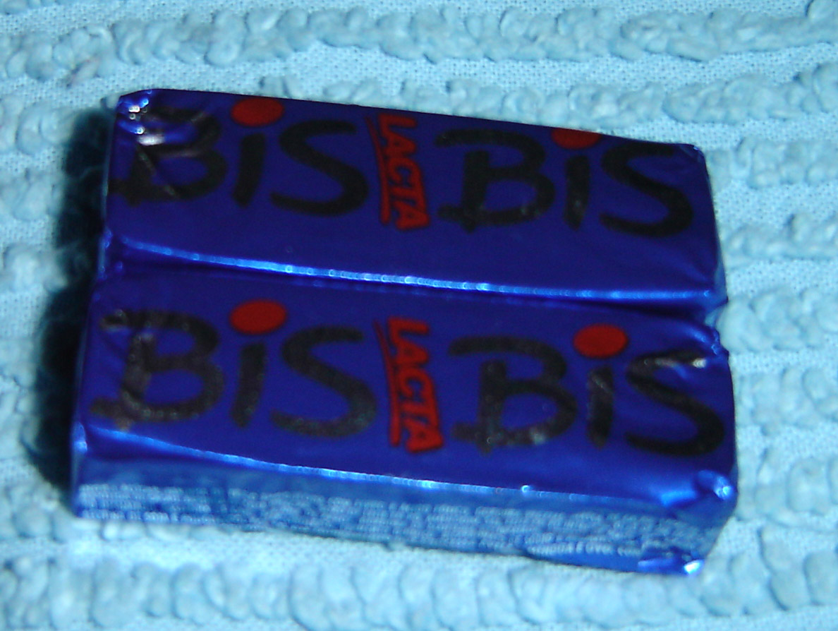 Bis Lacta chocolate